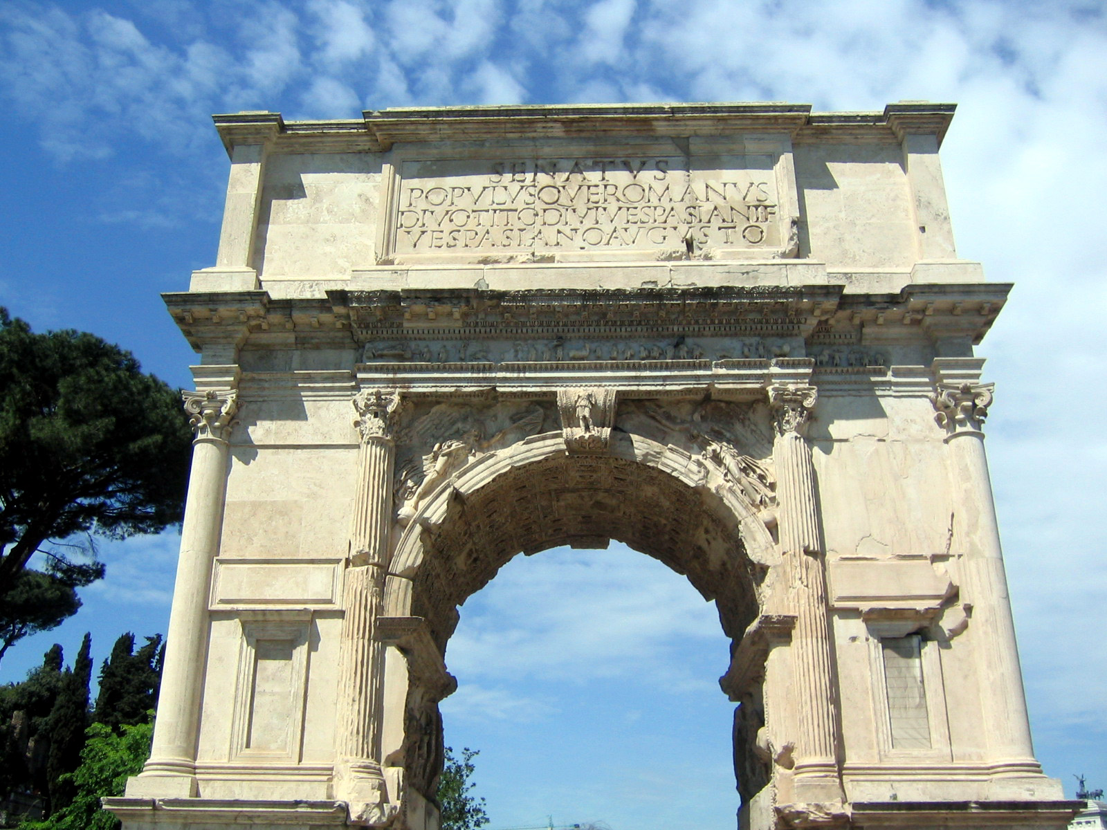 Arch of titus, Rome, Italy. Built to commemorate the emperor Titus' victory over the revolt of Judaea, it is extensively restored. Dazzling sunny sky today.arch of titus 1